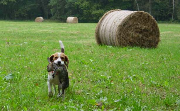 Beagle retrieving rabbit